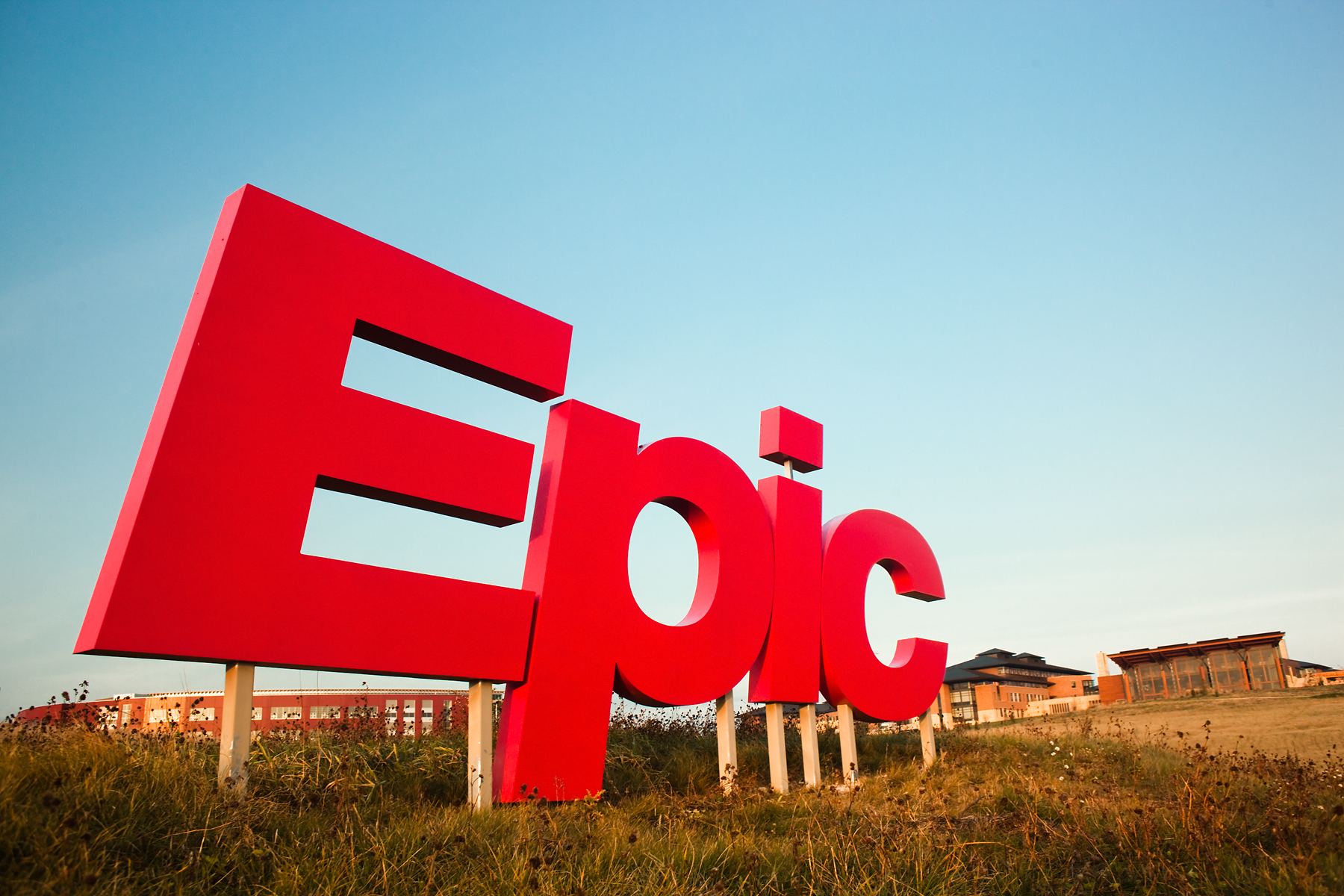 The eponymous sign outside Epic headquarters in Verona, Wisconsin.